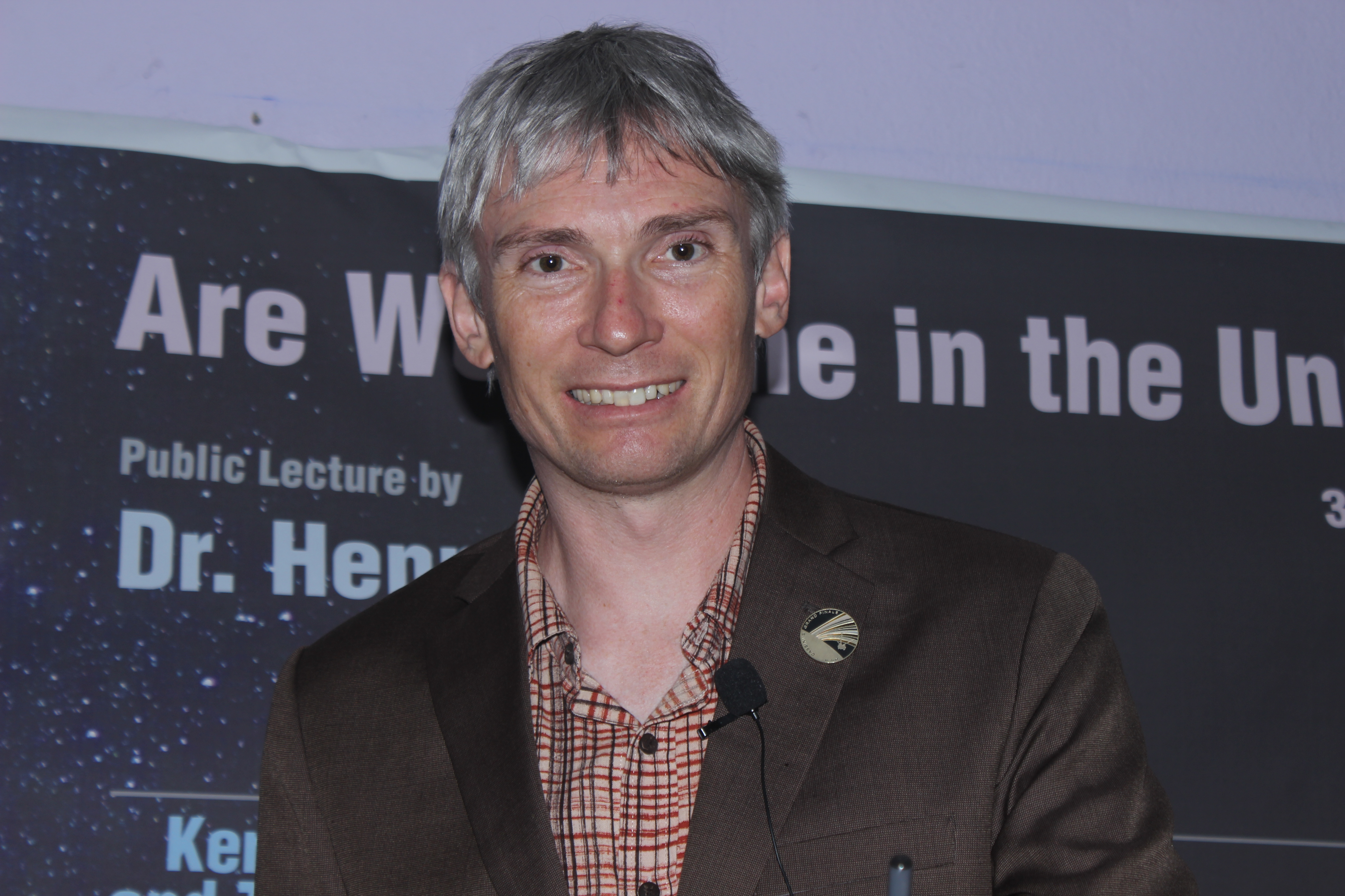 Dr. Henry Throop was responsible for the oversight and management of two of the NASA's major scientific research programs, one of which is New Horizons Mission. Throop had been working on NASA’s New Horizons mission since 2003, in preparation for its arrival at Pluto in July, 2015, which has been successfully achieved. He is a Senior Lecturer at the University of Pretoria and a Senior Scientist with the Planetary Science Institute in Tucson, Arizona, USA. His work focuses on the outer solar system and he has published over 40 articles in scientific journals on topics ranging from to rings of Saturn and Jupiter, to planet and star formation, to astrobiology and the origins of life, to searching for (and co-discovering) Pluto's smallest moon, Styx, in 2012. Phot was taken at a Lucture in the Kerala Science and Technology Museum, Kerala, India